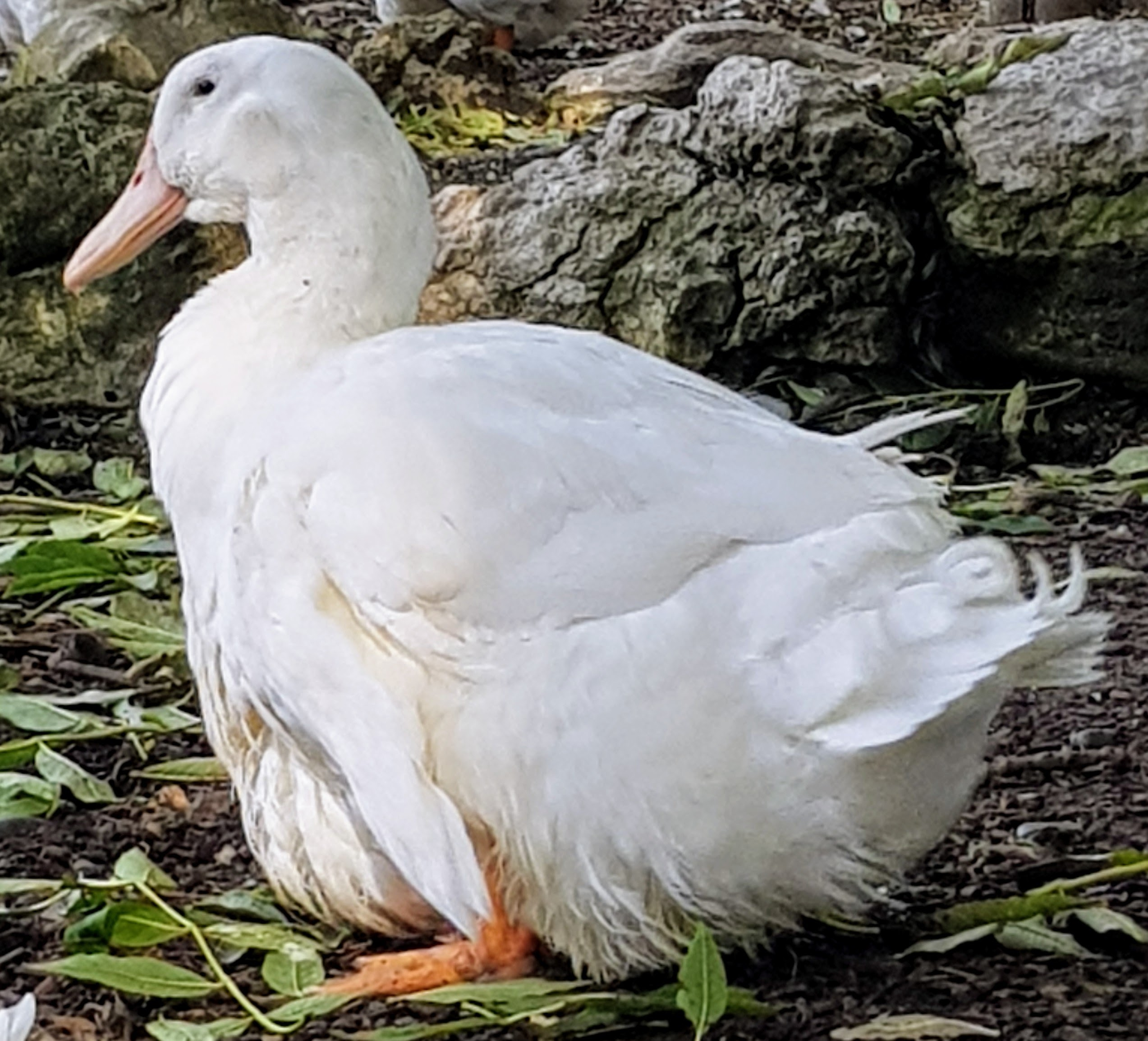 Aylesbury ducks at Mudchute Farm, E14